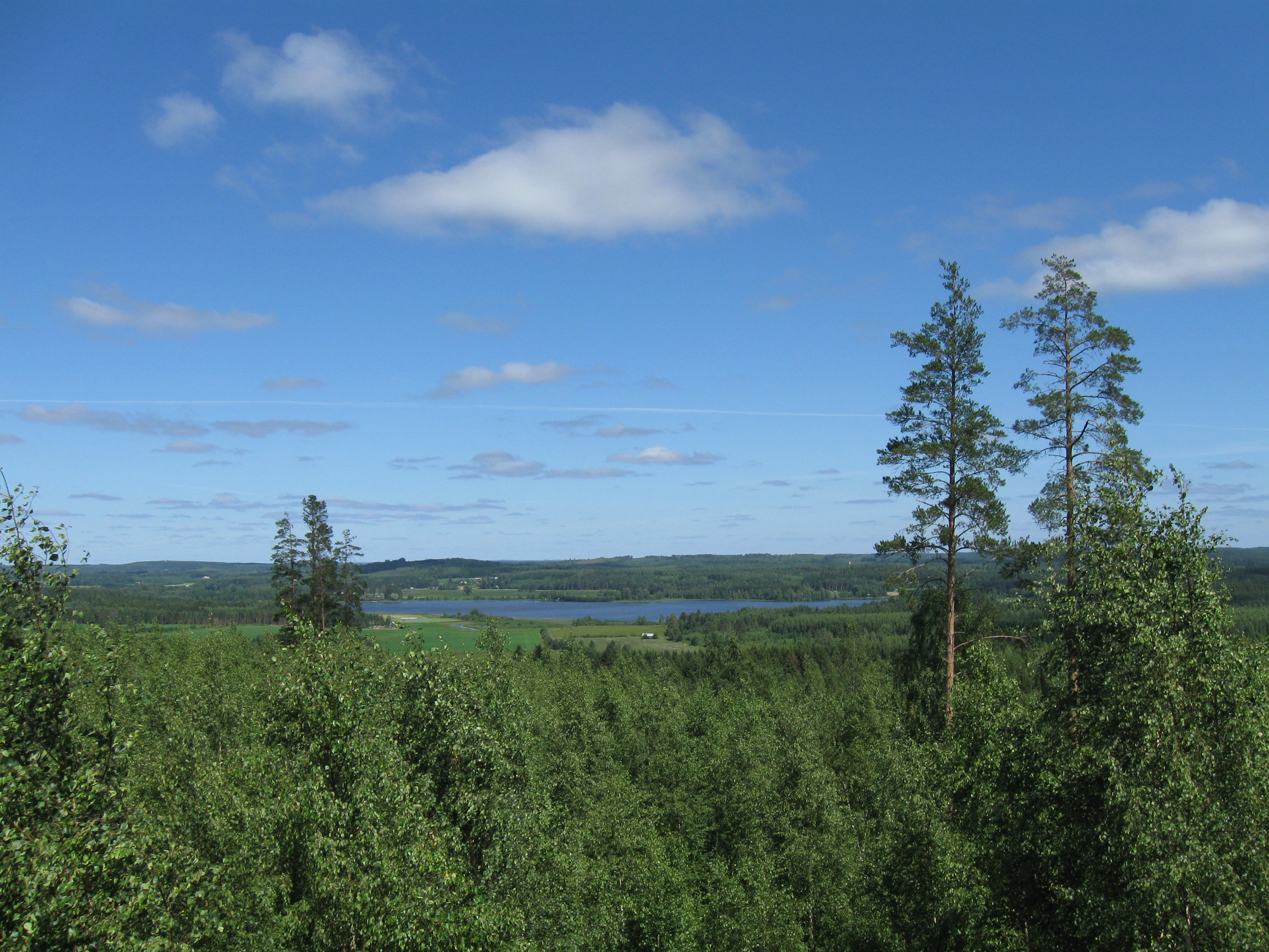 A view to the Tarnala village in Saari, Parikkala, Finland, across the Pien-Rautjärvi lake, from the Vaaranmäki hill.